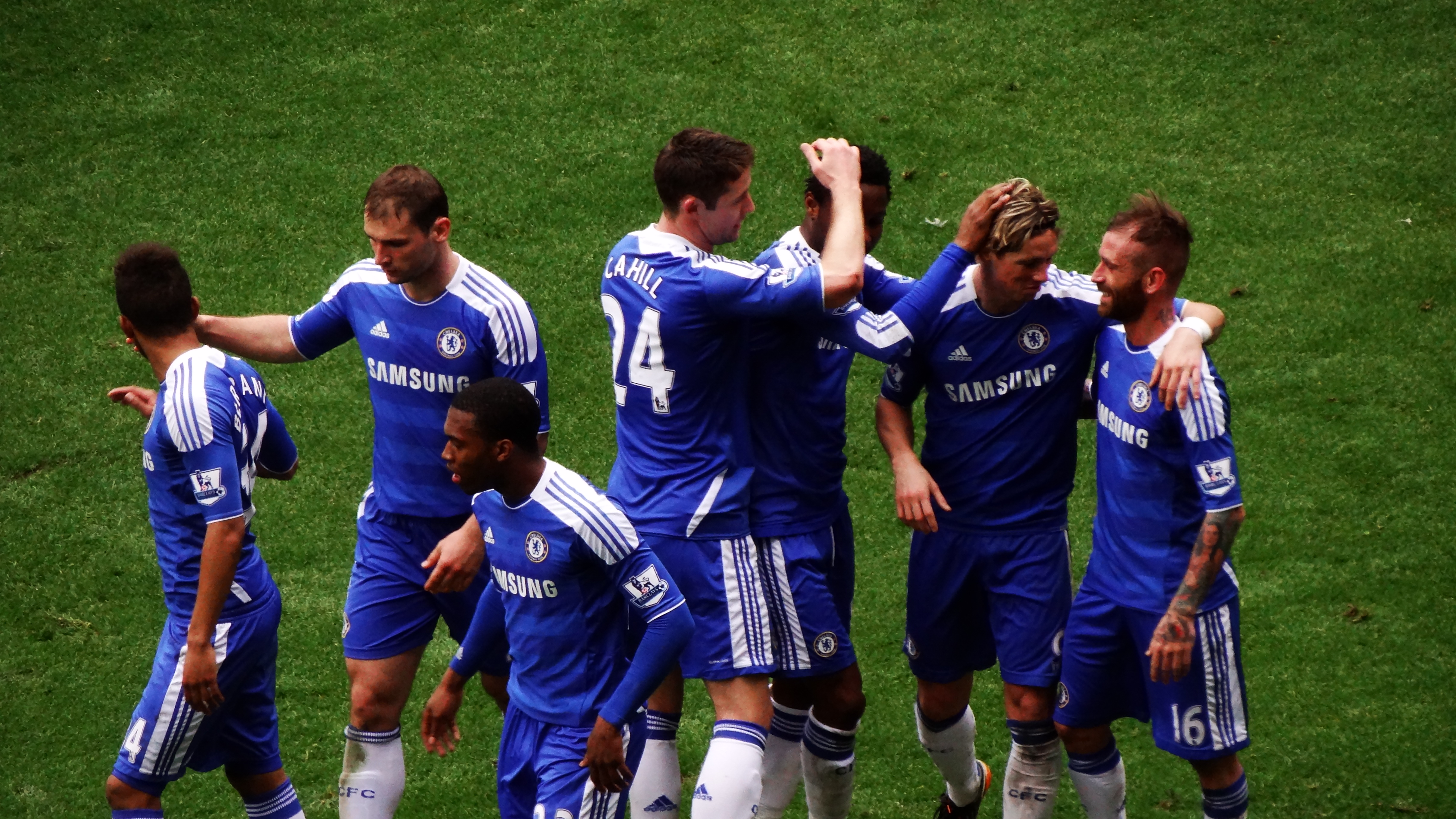 Chelsea against Leicester City (March 18, 2012).